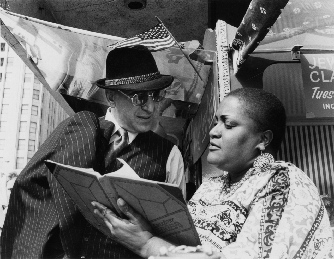 Esther Sutherland and Telly Savalas in a promotional photograph in the television series Kojak, Season 2, Episode 3, Hush Now, Don't You Die' (1974)